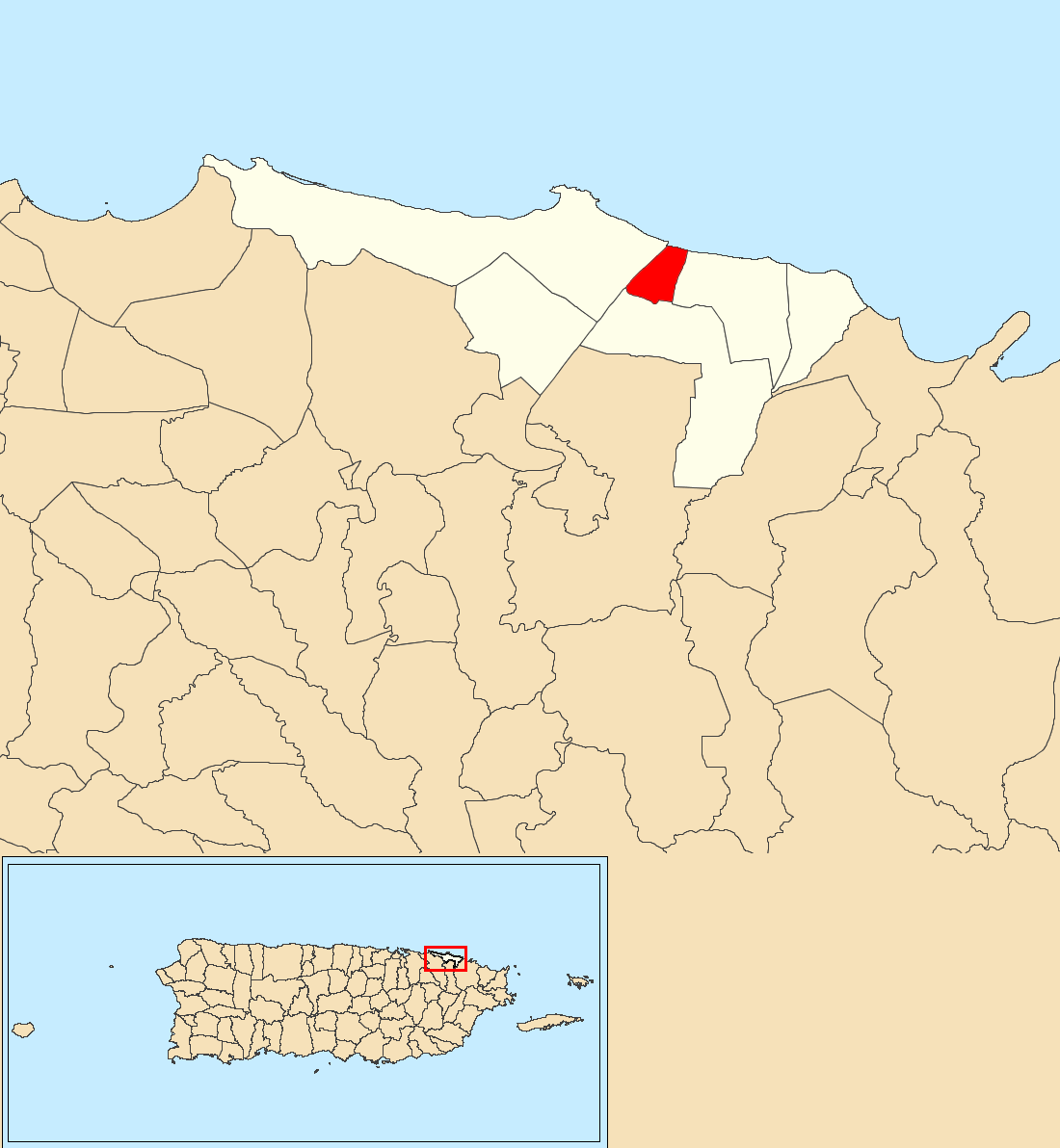 Loíza barrio-pueblo, Loíza, Puerto Rico locator map